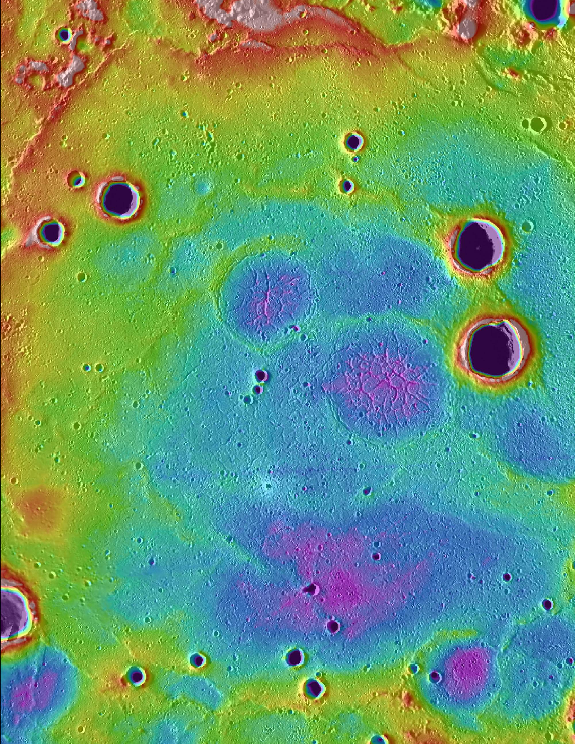 Highs and Lows of Goethe Original Caption Released with Image: Topographic information from the Mercury Laser Altimeter (MLA) is used to colorize a image mosaic of Goethe basin, located in Mercury's northern region. The purple colors are low and white is the highest; the total range of heights shown in this view is about 1 kilometer. Goethe basin is home to a variety of interesting features, including ghost craters with graben, wrinkle ridges that outline the basin, and dark craters that host radar-bright materials. Scale: The width of this image is about 250 kilometers (150 miles) The MESSENGER spacecraft is the first ever to orbit the planet Mercury, and the spacecraft's seven scientific instruments and radio science investigation are unraveling the history and evolution of the Solar System's innermost planet. Visit the Why Mercury? section of this website to learn more about the key science questions that the MESSENGER mission is addressing. During the one-year primary mission, MDIS acquired 88,746 images and extensive other data sets. MESSENGER is now in a year-long extended mission, during which plans call for the acquisition of more than 80,000 additional images to support MESSENGER's science goals.